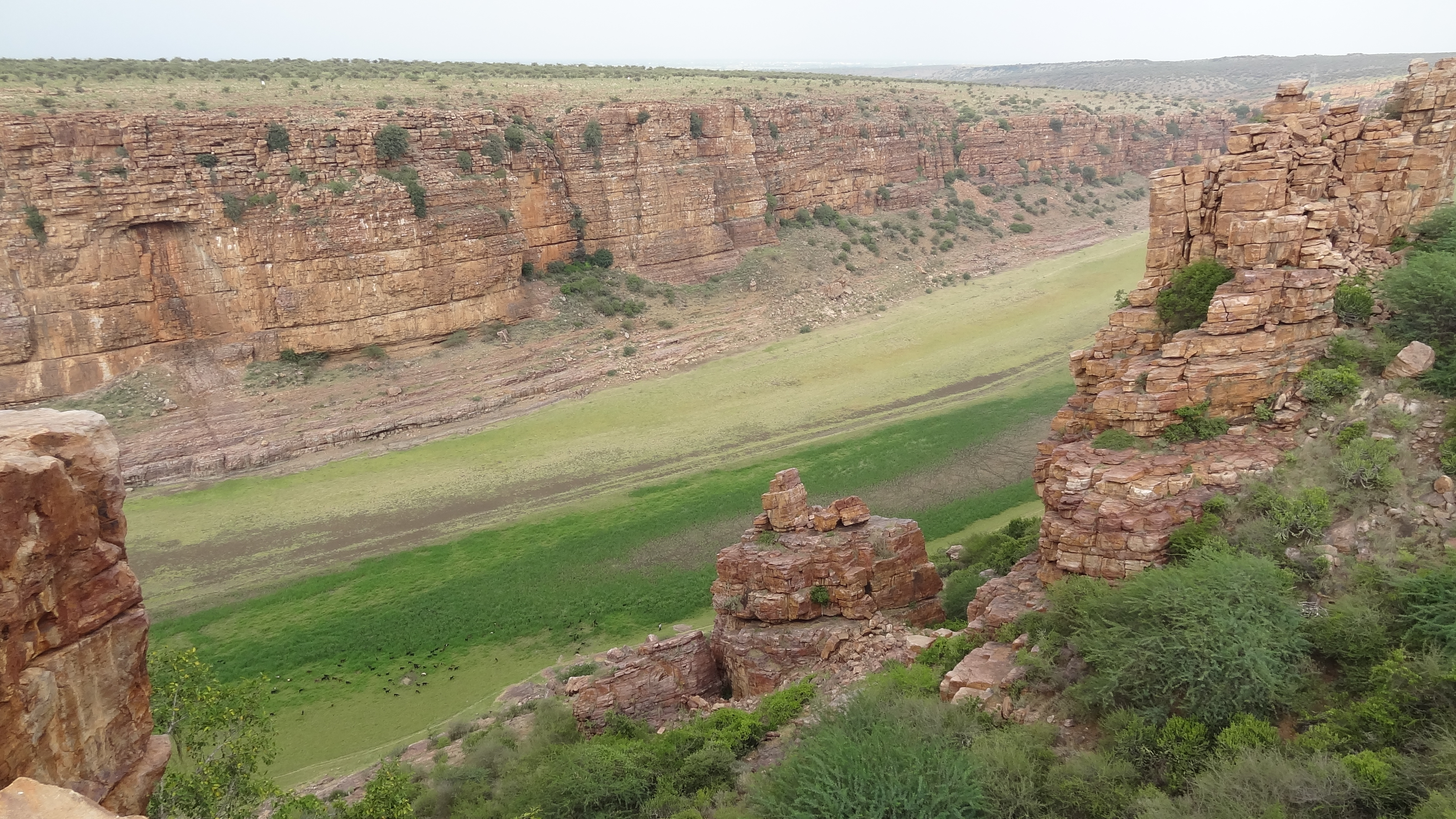 Fort with enclosed ancient buildings, Madhavaperumal temple